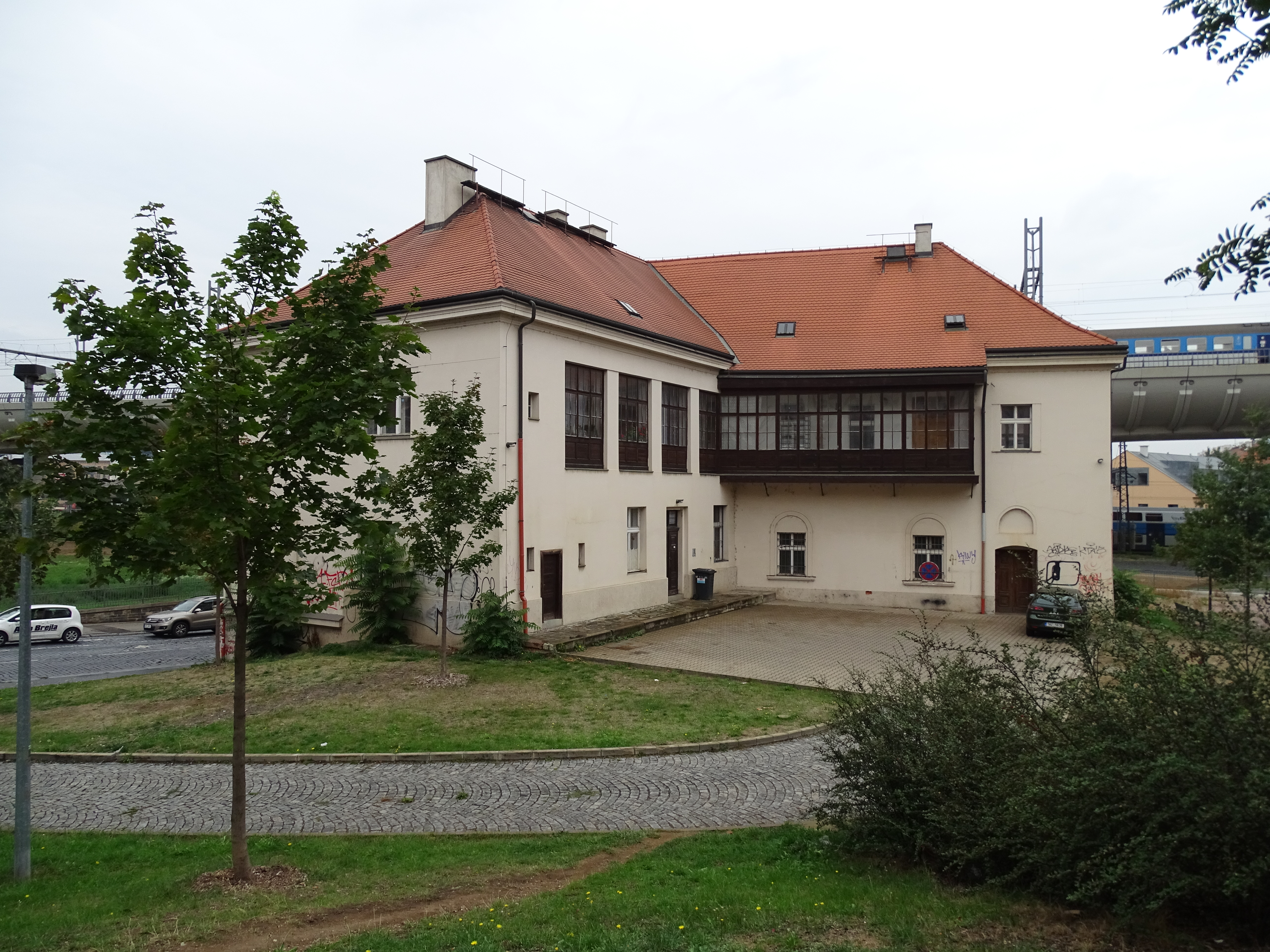 Prague-Žižkov, Czech Republic. Trocnovská 1/2, Hrabovka house.